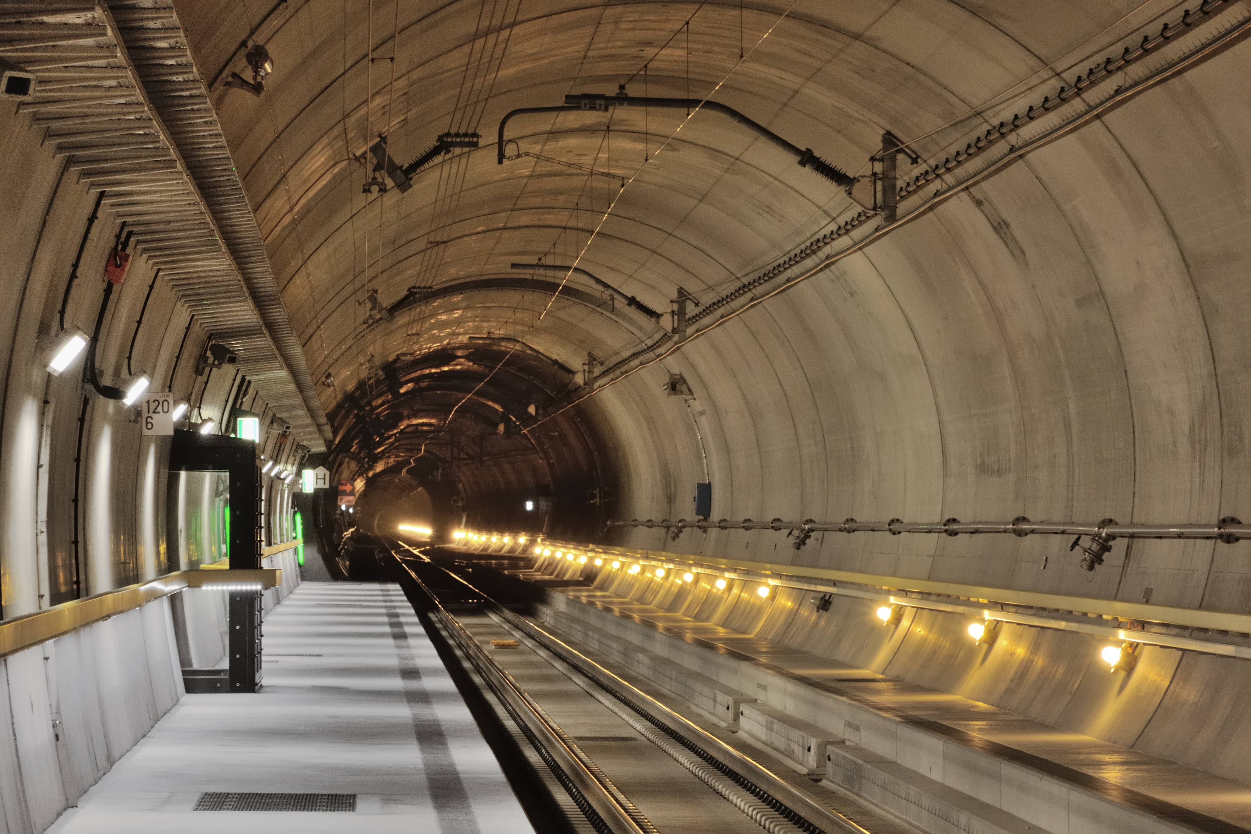 Gotthard Base Tunnel at Sedrun multifunction station (east tube), looking south. The vertical distance to the ground is about 1200 metres from this point. Note the waiting hall window, a remnant of the project "Porta Alpina".